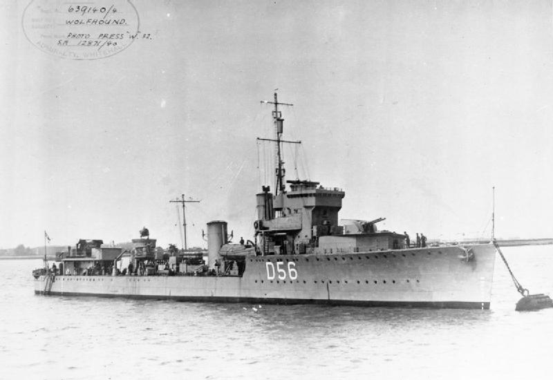 HMS WOLFHOUND at a buoy